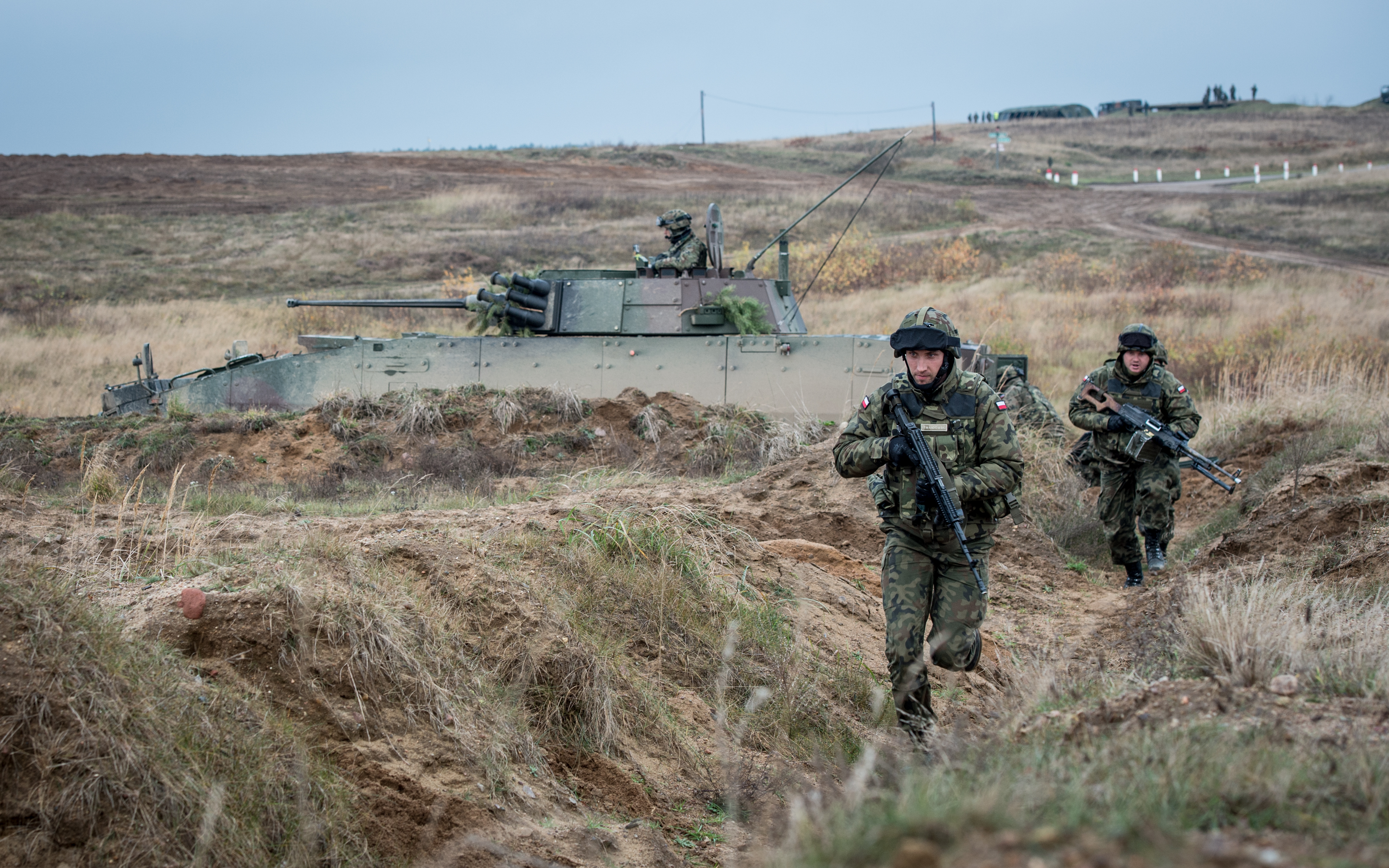 Crew of a Polish Wolvarine Armoured Personnel Carrier practice demounting and taking up defencive positions during a live fire exercise on Exercise Steadfast Jazz at the Drawsko Pomorskie Training Area, Poland, on Nov. 6, 2013. Exercise Steadfast Jazz 2013 is taking place from 1-9 November in a number of Alliance nations including the Baltic States and Poland. The purpose of the exercise is to train and test the NATO Response Force, a highly ready and technologically advanced multinational force made up of land, air, maritime and special forces components that the Alliance can deploy quickly wherever needed. The Steadfast series of exercises are part of NATO’s efforts to maintain connected and interoperable forces at a high-level of readiness. (NATO photo/SSgt Ian Houlding GBR Army)